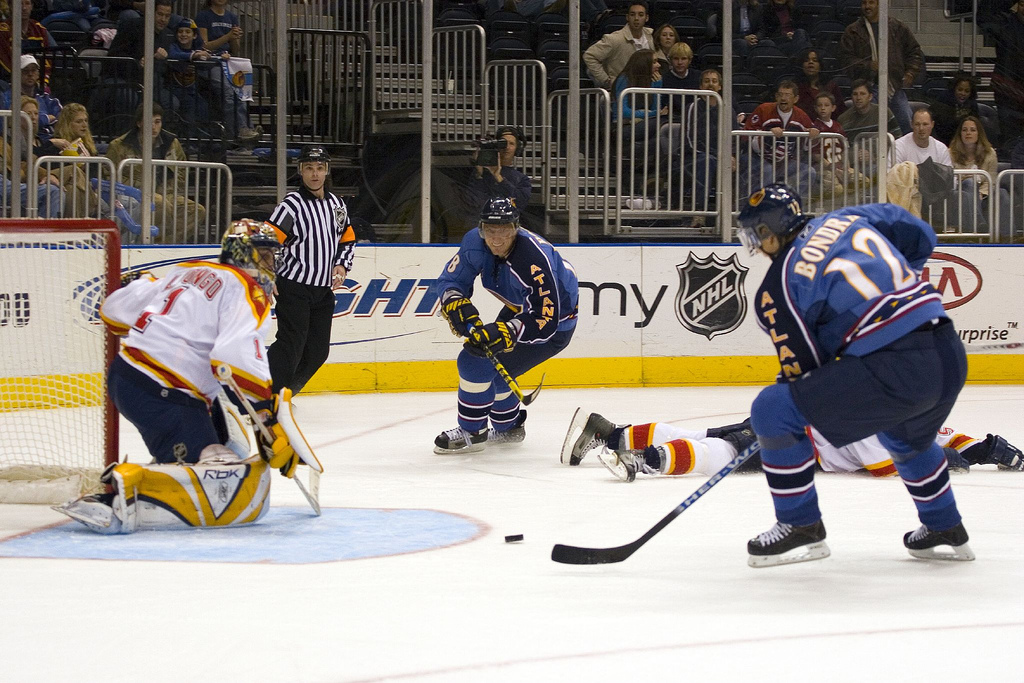 Peter Bondra of Atlanta Thrashers prepares to shoot